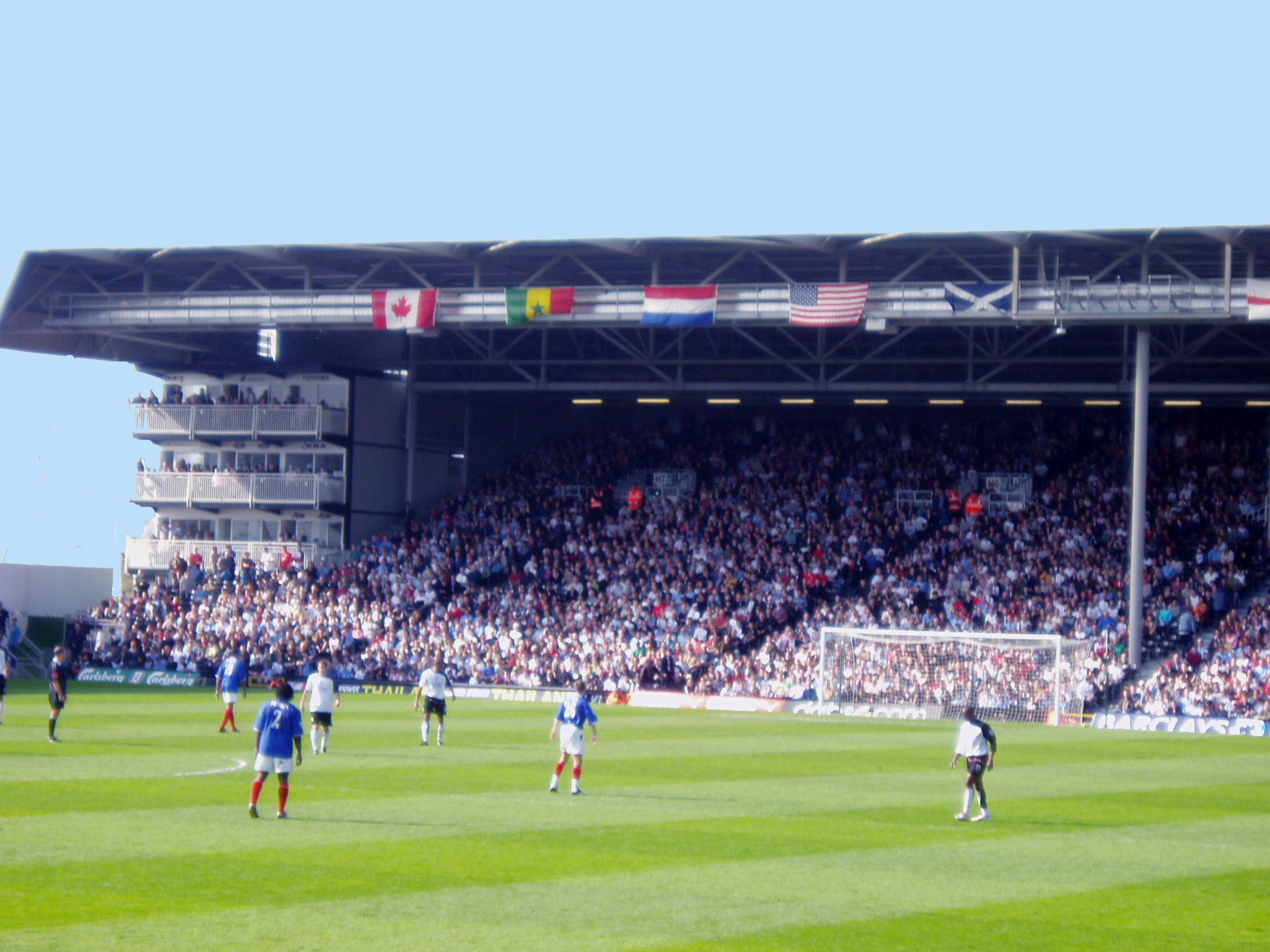 Samuel James, 2007